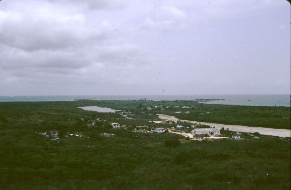 North Point, Rice Bay, and Dixon Hill Settlement, facing north from the lighthouse on San Salvador Island, Bahamas.